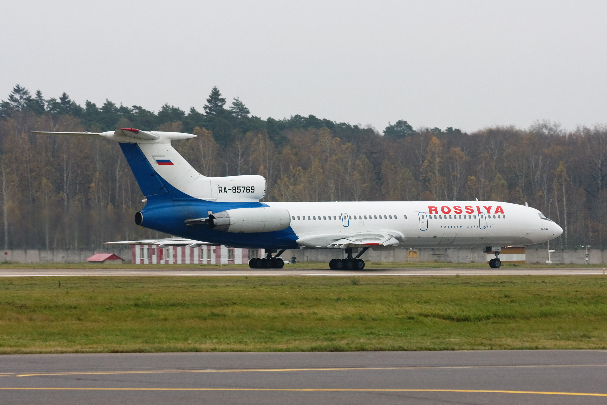 Rossiya Tu-154 on departure